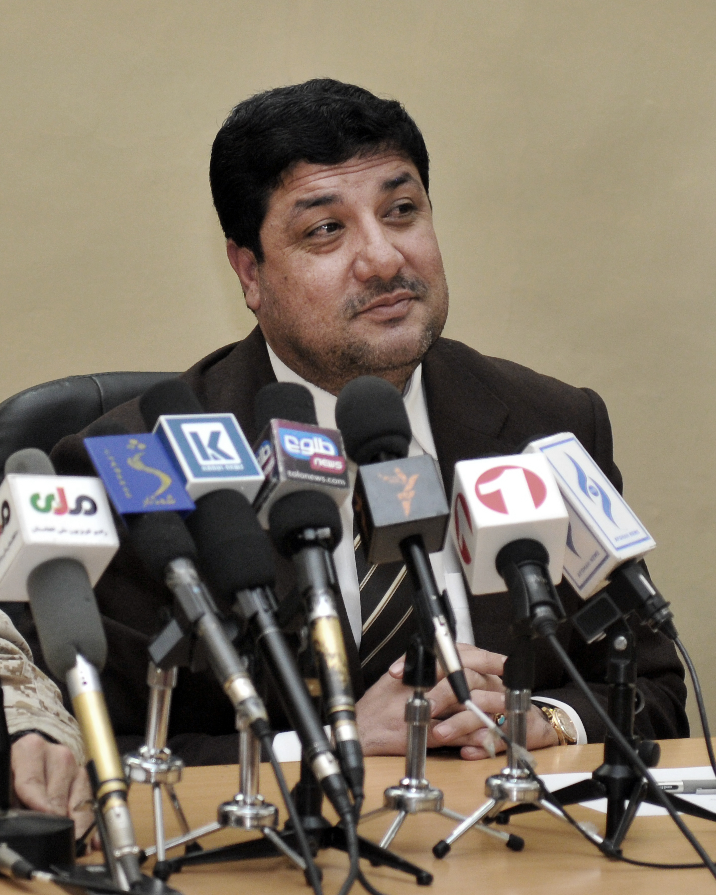 Governor of Kabul Ahmadullah Alizai listens to a question from a member of the Afghan media following a private meeting with Marine Corps Gen. John R. Allen, commander of NATO and International Security Assistance Force troops in Afghanistan, in Regional Command-Capital, Kabul province, Oct. 17, 2011. (Air Force photo/Master Sgt. Michael O'Connor) (Released)